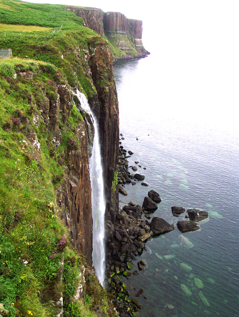 Mealt Falls. On the North Eastern coast of Scotland's Isle of Skye. The falls drain Loch Mealt. The photo is taken from about the only vantage point available.